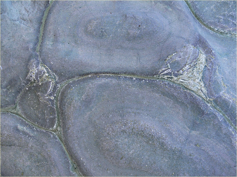 Pillowbasalt Kissenlava OIB (ocean island basalt) in part of the Caldera de Taburiente on La Palma Note that this example of pillow lava is not an ophiolite. It was not emplaced by the process of obduction.